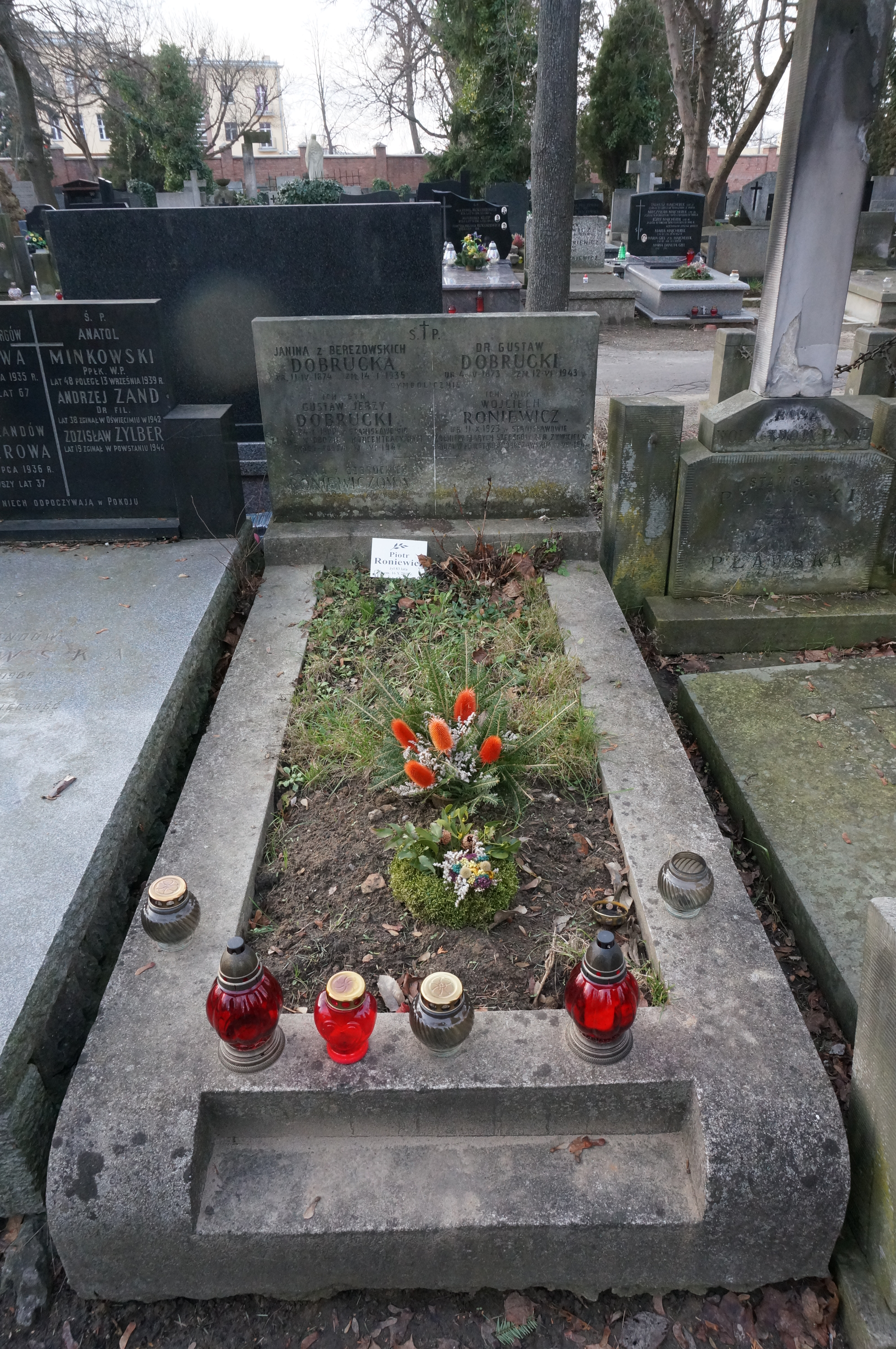 The grave of Gustaw Dobrucki at the Powązki Cemetery (section 284a straight, row 5, grave 17)